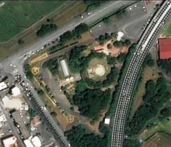 Okinawa Arena Building Site